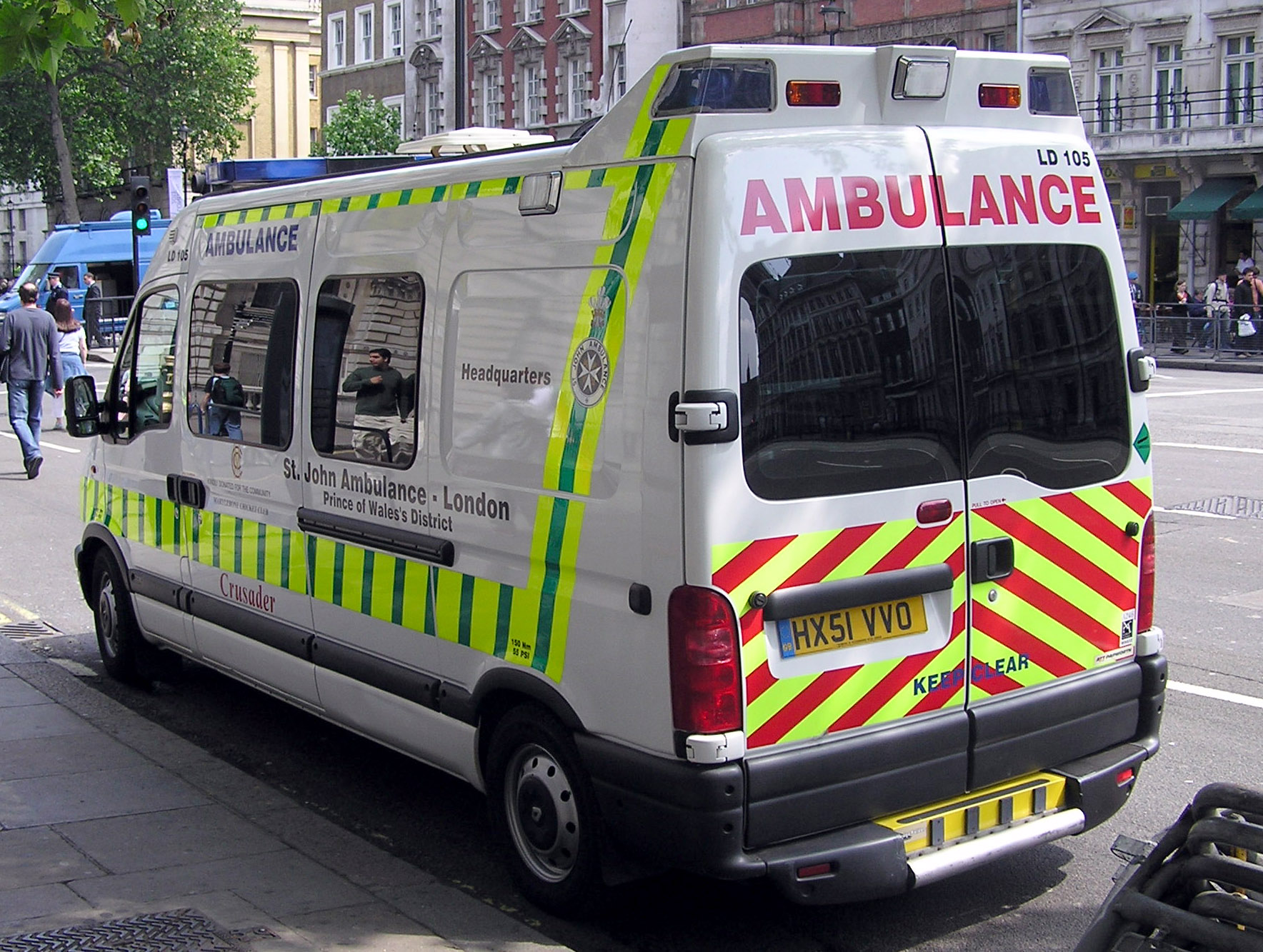 St John Ambulance Crusader in a London street. Photographed by Adrian Pingstone in June 2005 and released to the public domain.